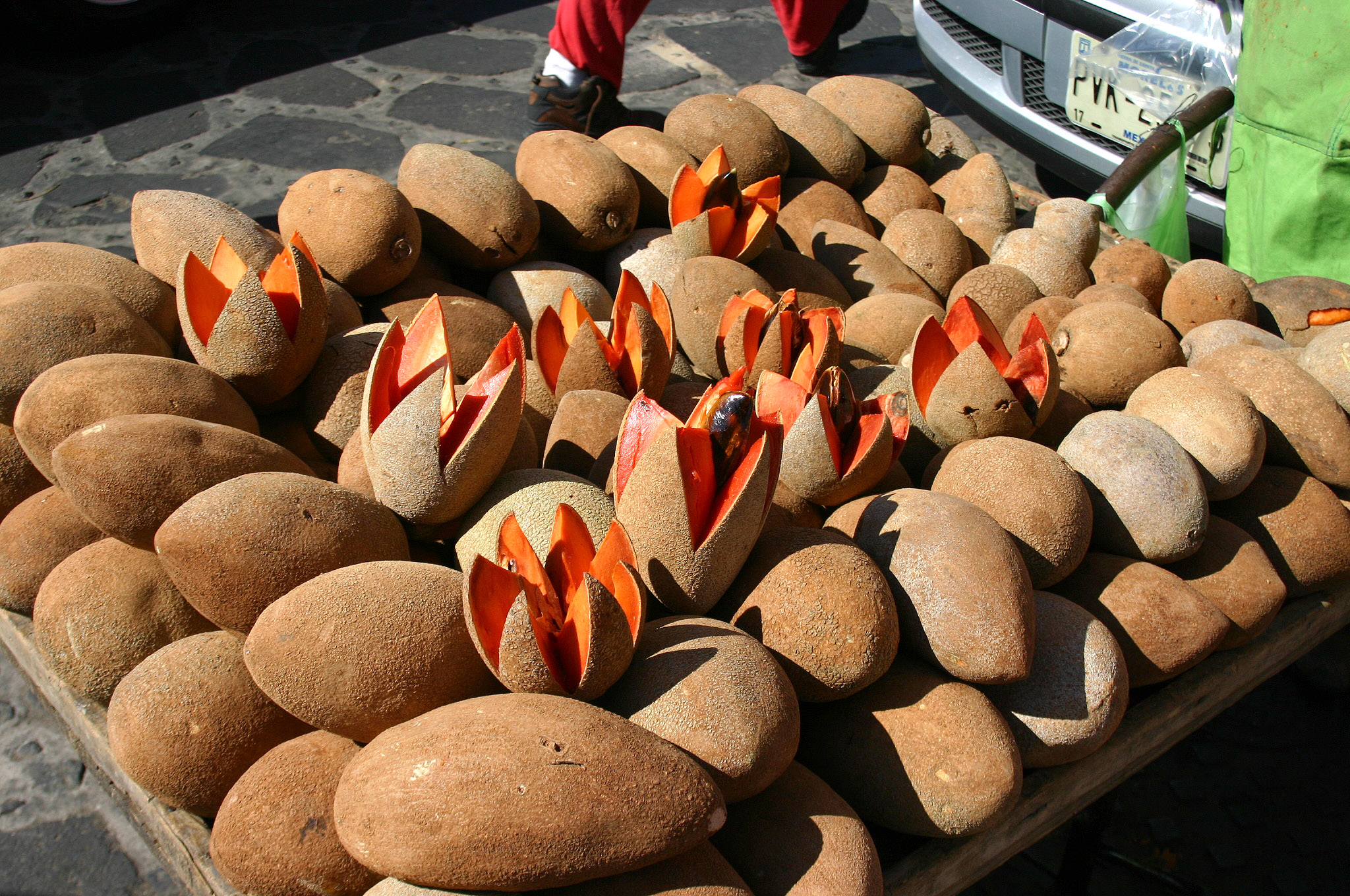 A bunch of mamey fruit in a market in Tepoztlan, Mexico, December 2006